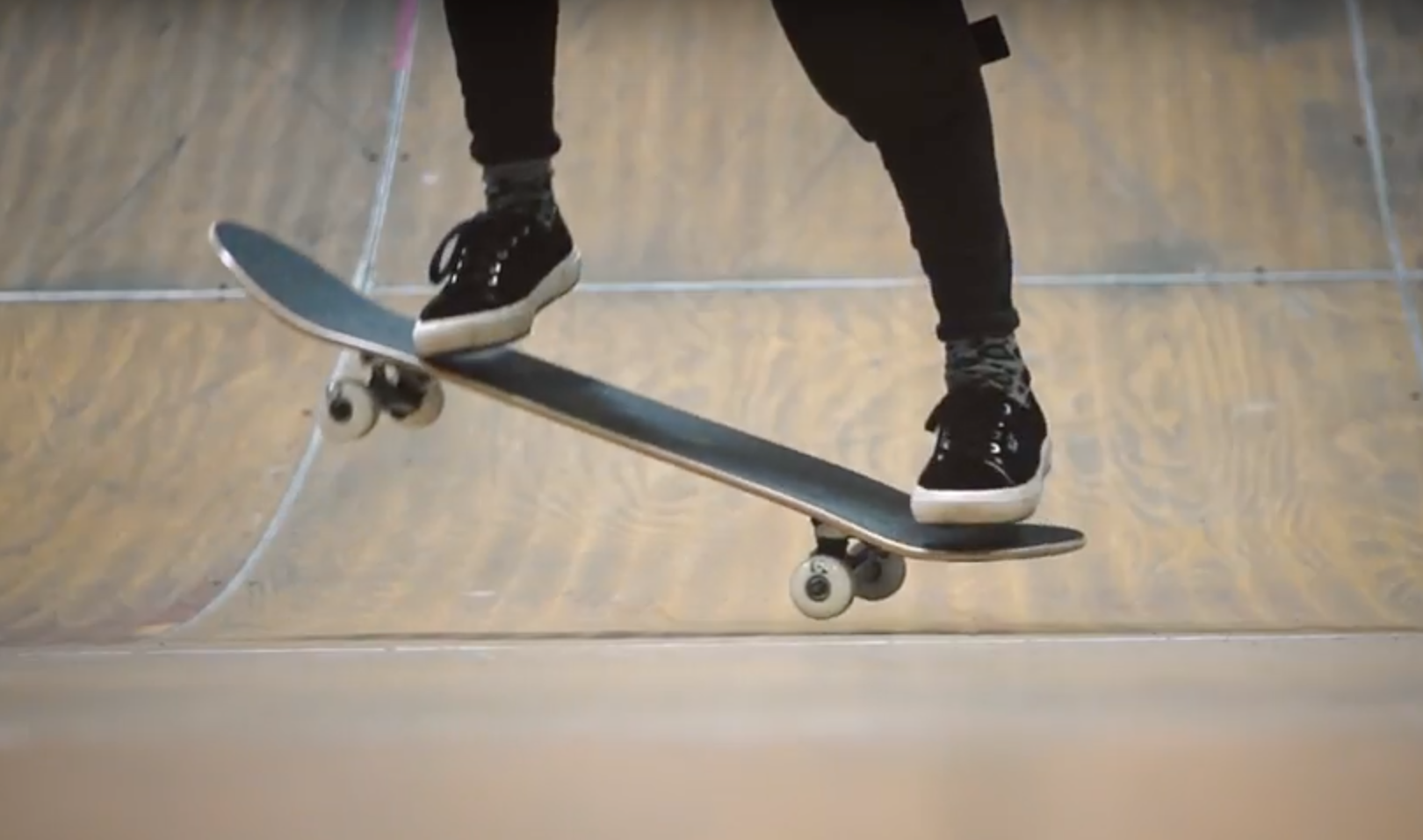 An example of a 10/10 very low ollie.